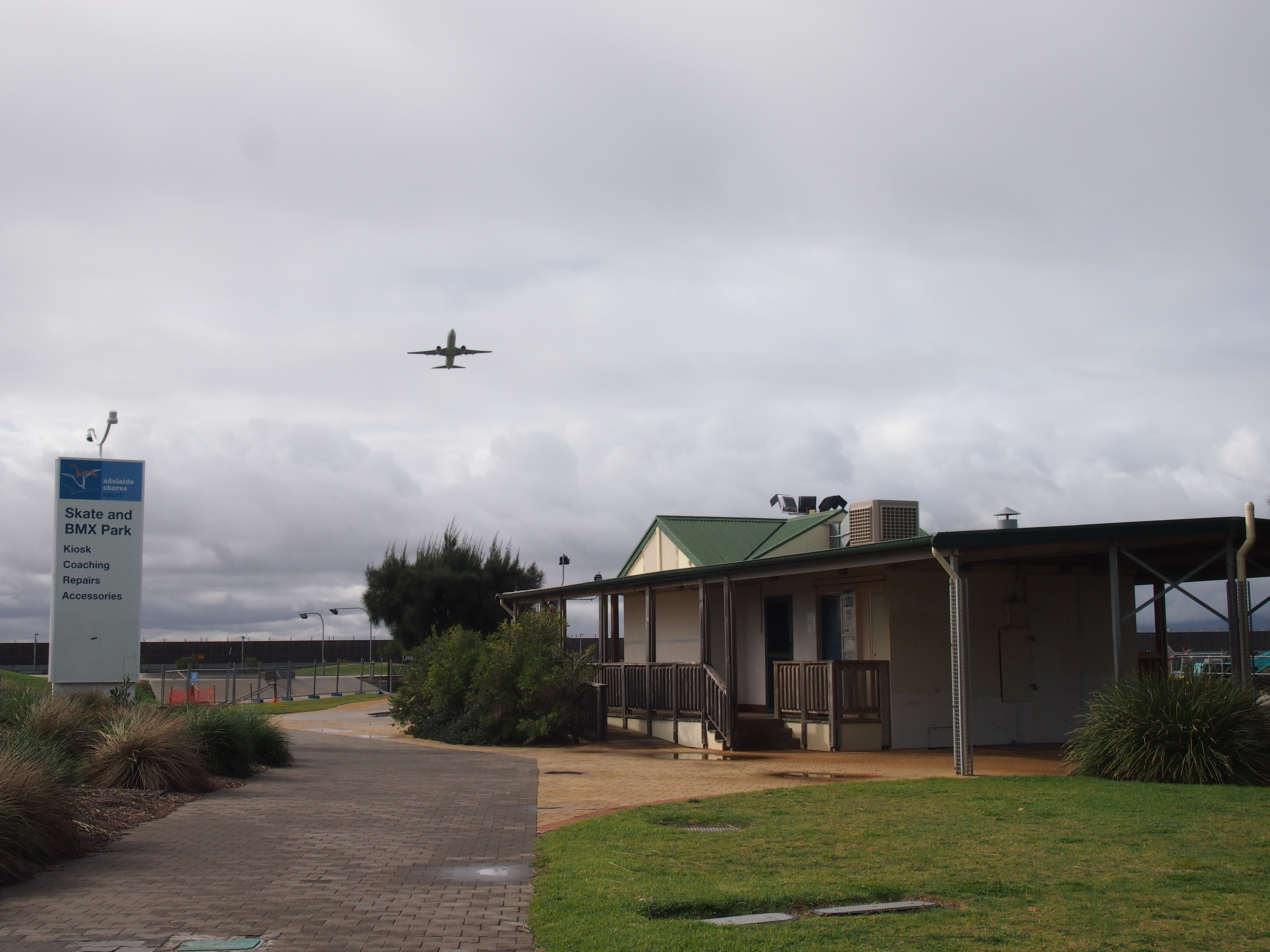 West Beach Skate Park at West Beach, South Australia lies under the flight path of Adelaide Airport Original filename = P6303046.JPG